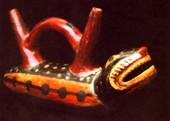 A ceramic bottle depicting a serpent, in the Nievería style. Lima culture (6-7th centuries A.D.)